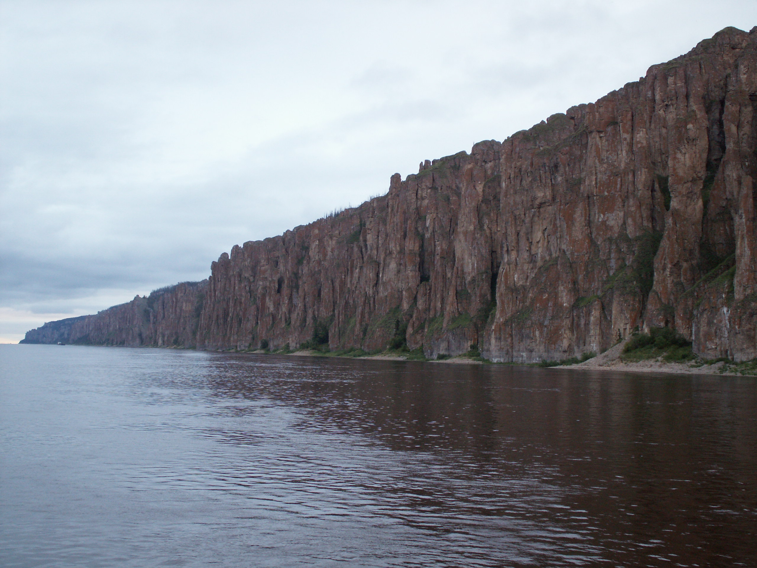 Lena Pillars